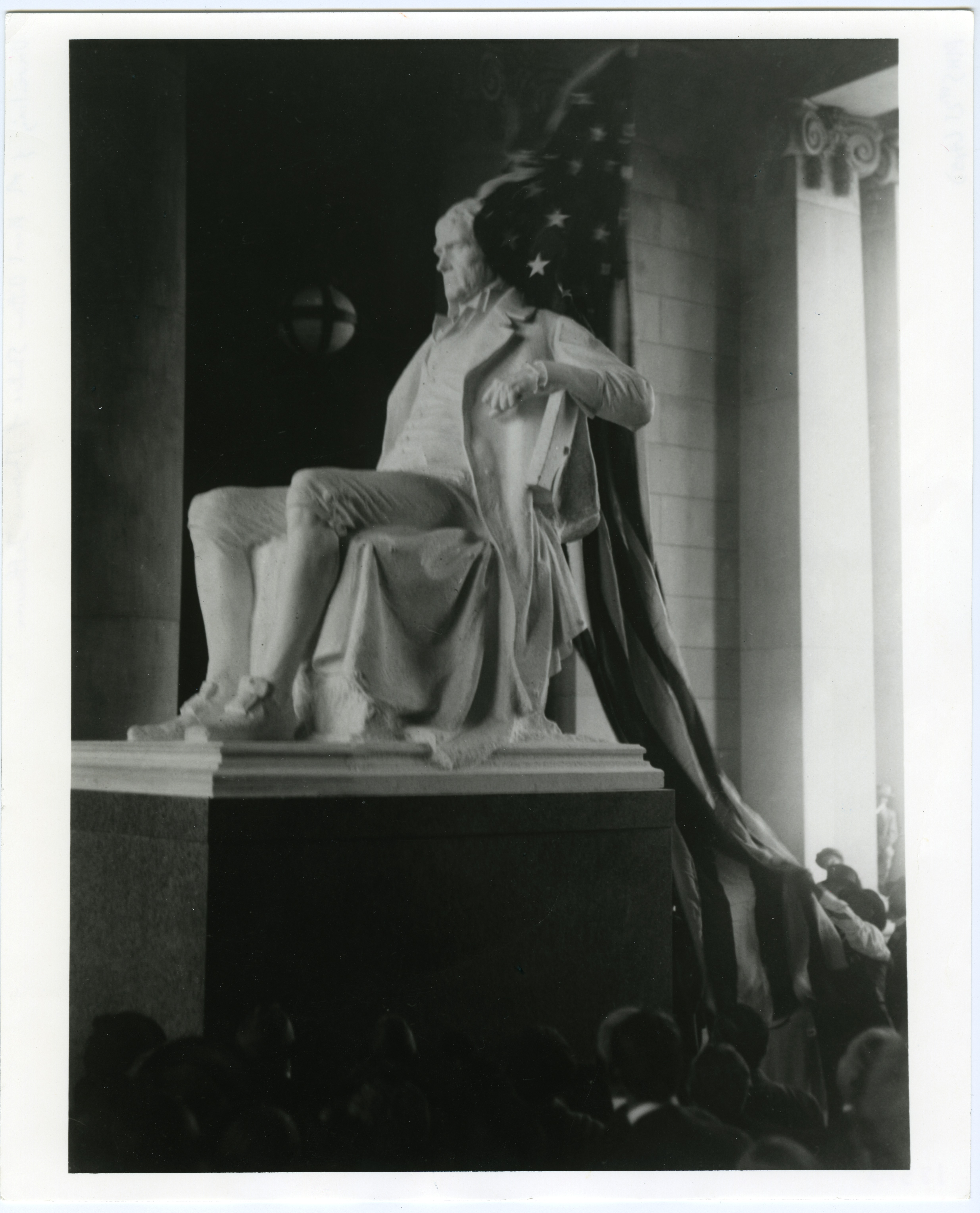 Vertical, black and white photo of an American flag being pulled off of a statue of Thomas Jefferson. Jefferson is seated and facing the left. There is a crowd gathered at the base of the statue. The scene is set inside a building and a column is visible at the far right.Title: Unveiling of the Karl Bitter statue of Thomas Jefferson at the Jefferson Memorial Building.